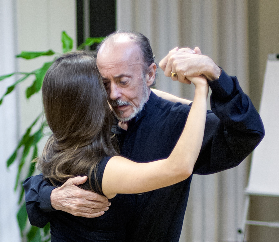 Carlos Gavito and Maria Plazaola give a Tango workshop in Stockholm, August 2004